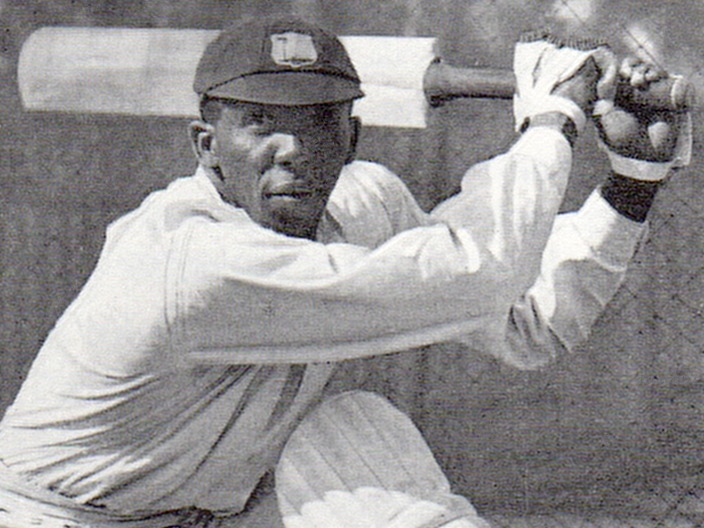 Cropped close up of Learie Constantine batting in Australia in 1930